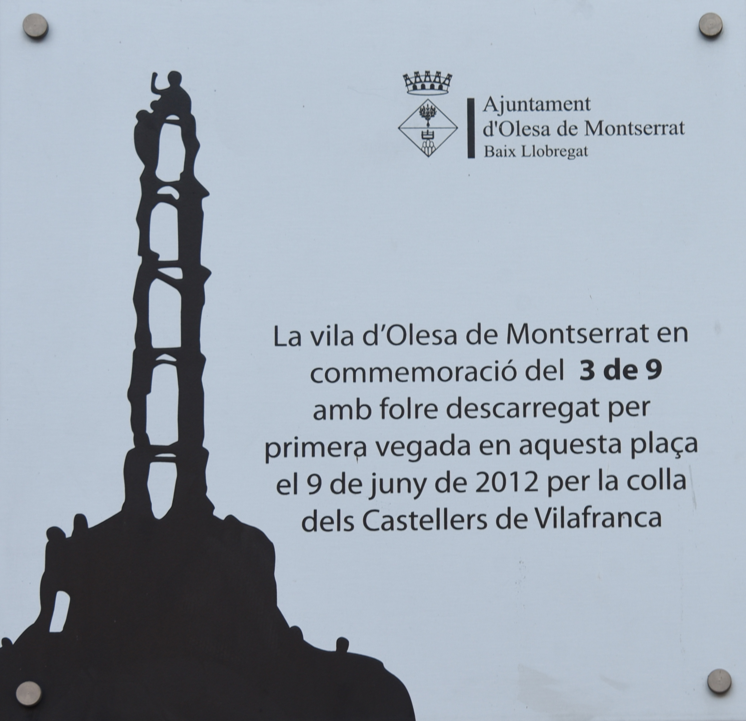 Plaque in commemoration of the human castle 3 to 9 type with 2nd base dismantled without anyone falling for the 1st time 9th June 2012 by a human castle group from Villafranca